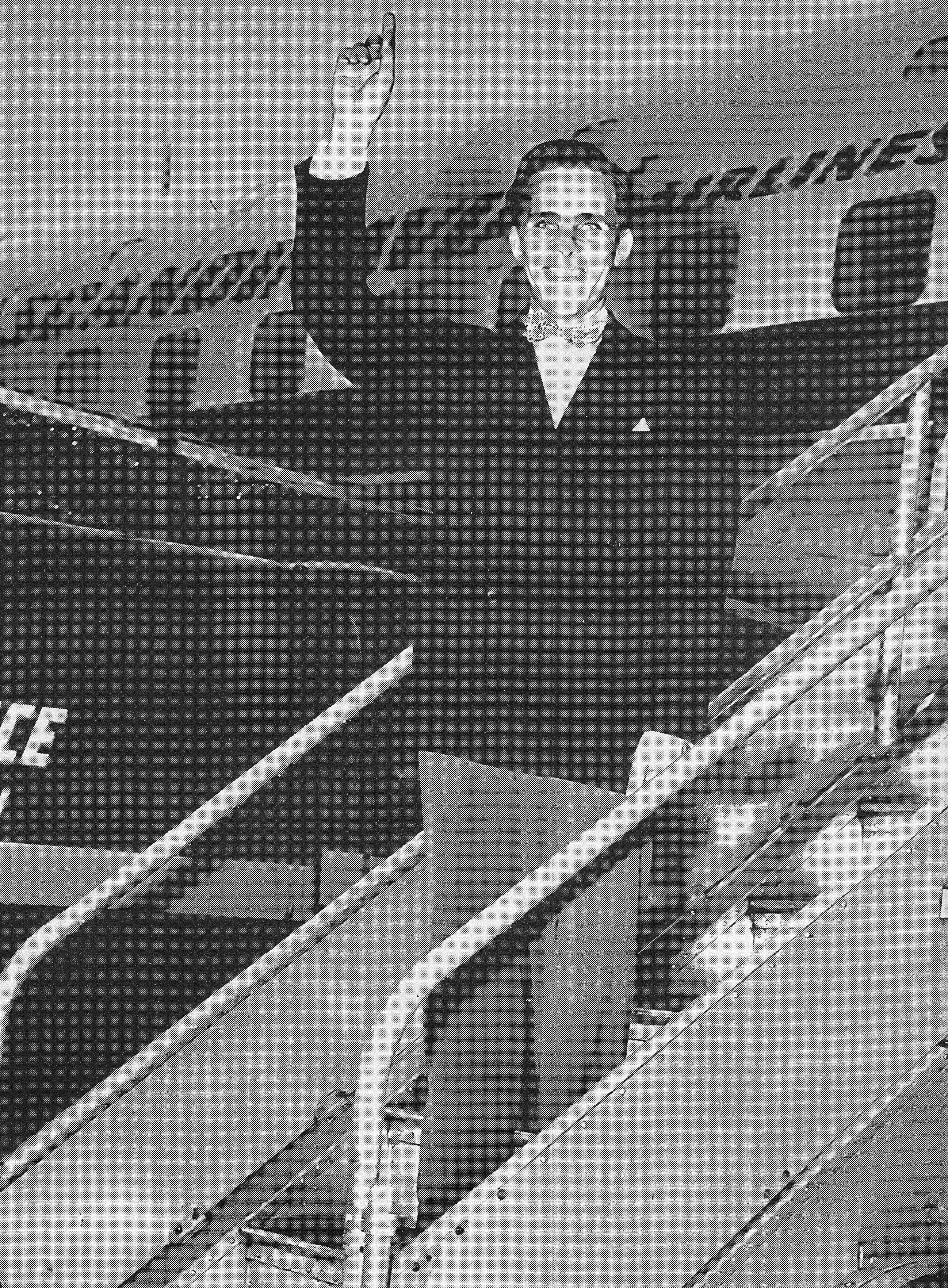 Paul Norrback